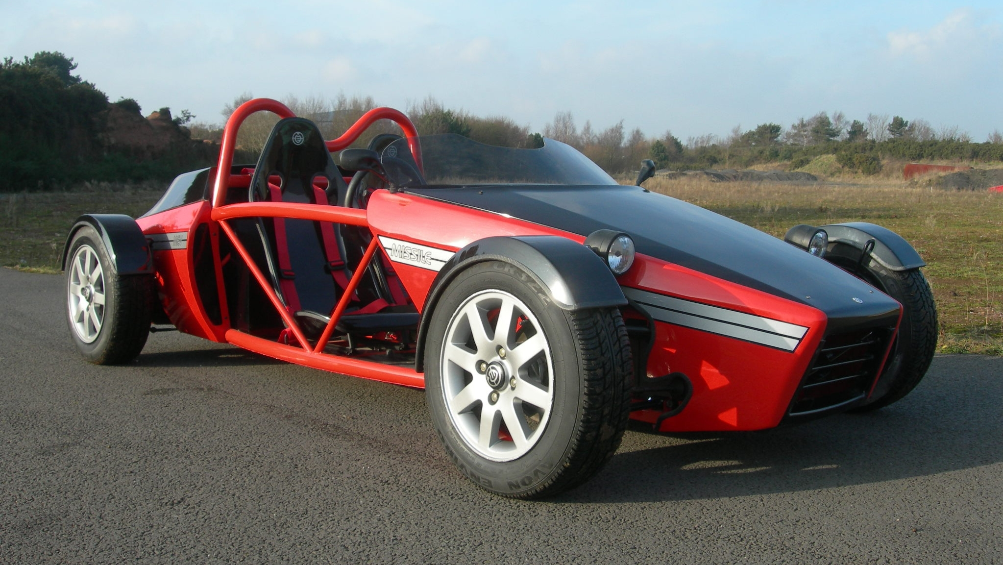 front three-quarter view of MEV Missile exoskeleton EV kitcar